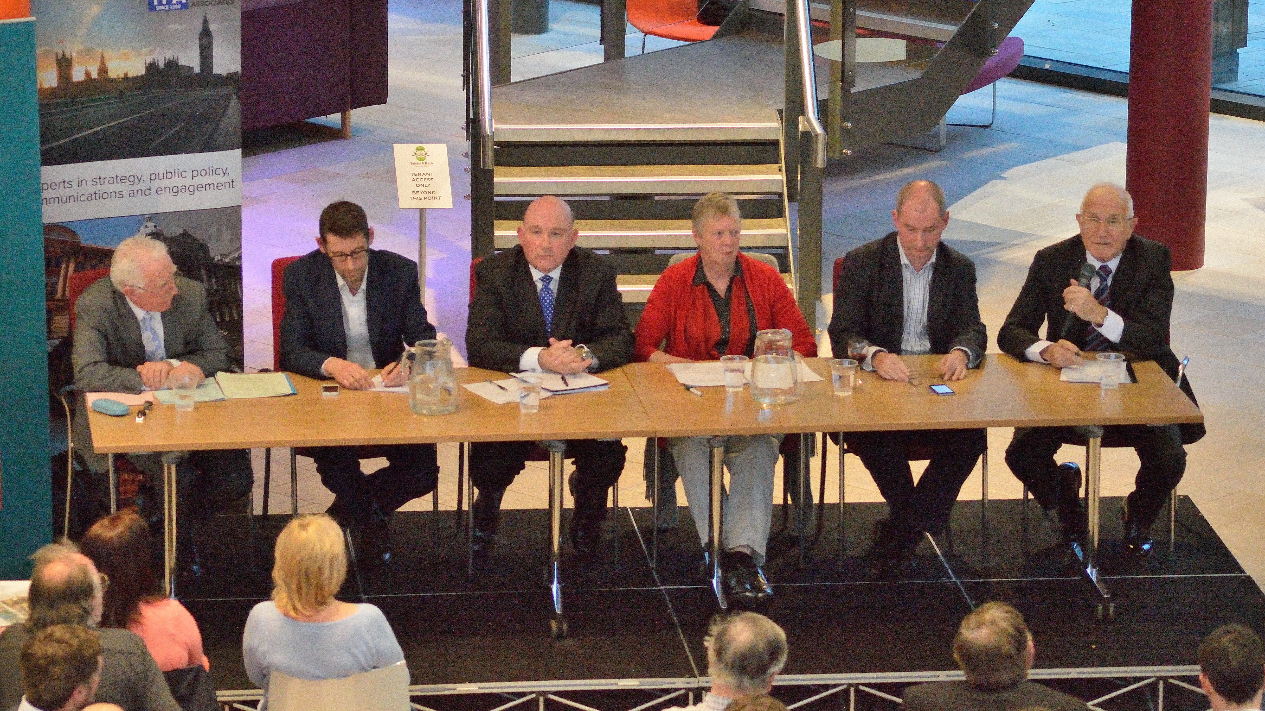 2017 West of England mayoral election Transport Infrastructure Debate panel, at the Bristol and Bath Science Park. Left to right on panel: Professor Robin Hambleton (chair), Darren Hall (Green). Tim Bowles (Conservative), Lesley Mansell (Labour), Stephen Williams (Liberal Democrat), John Savage (Independent). The UKIP candidate, Aaron Foot, did not attend the debate.